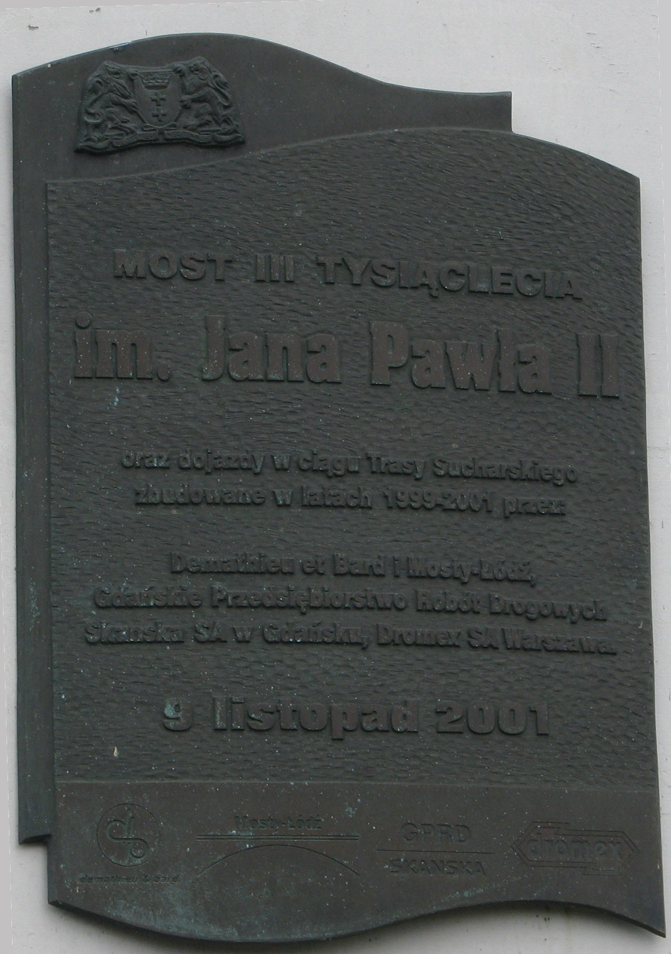 John Paul II Bridge in Gdańsk - plaque